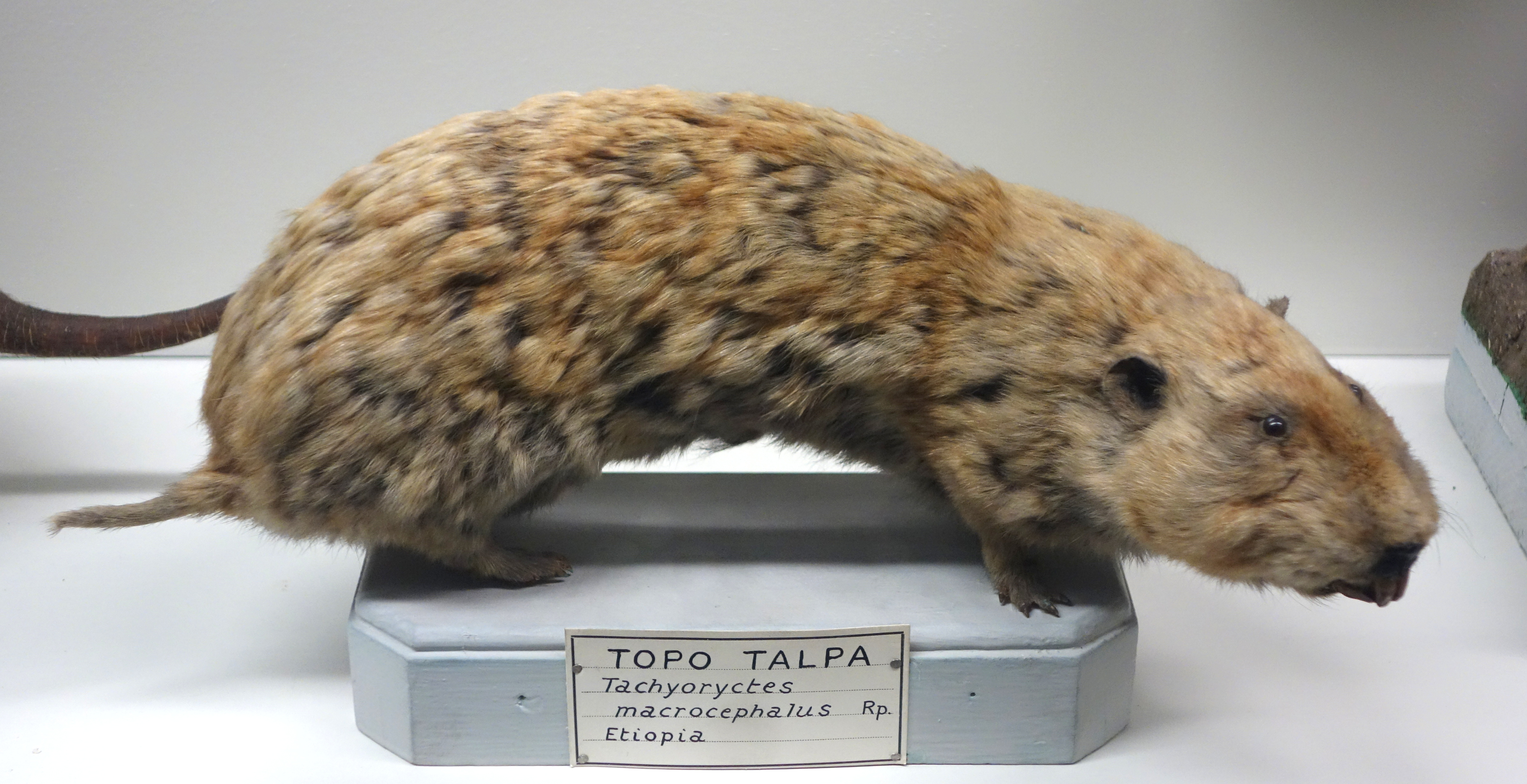 Exhibit in the Museo Civico di Storia Naturale di Genova, Via Brigata Liguria, 9, 16121, Genoa, Italy.